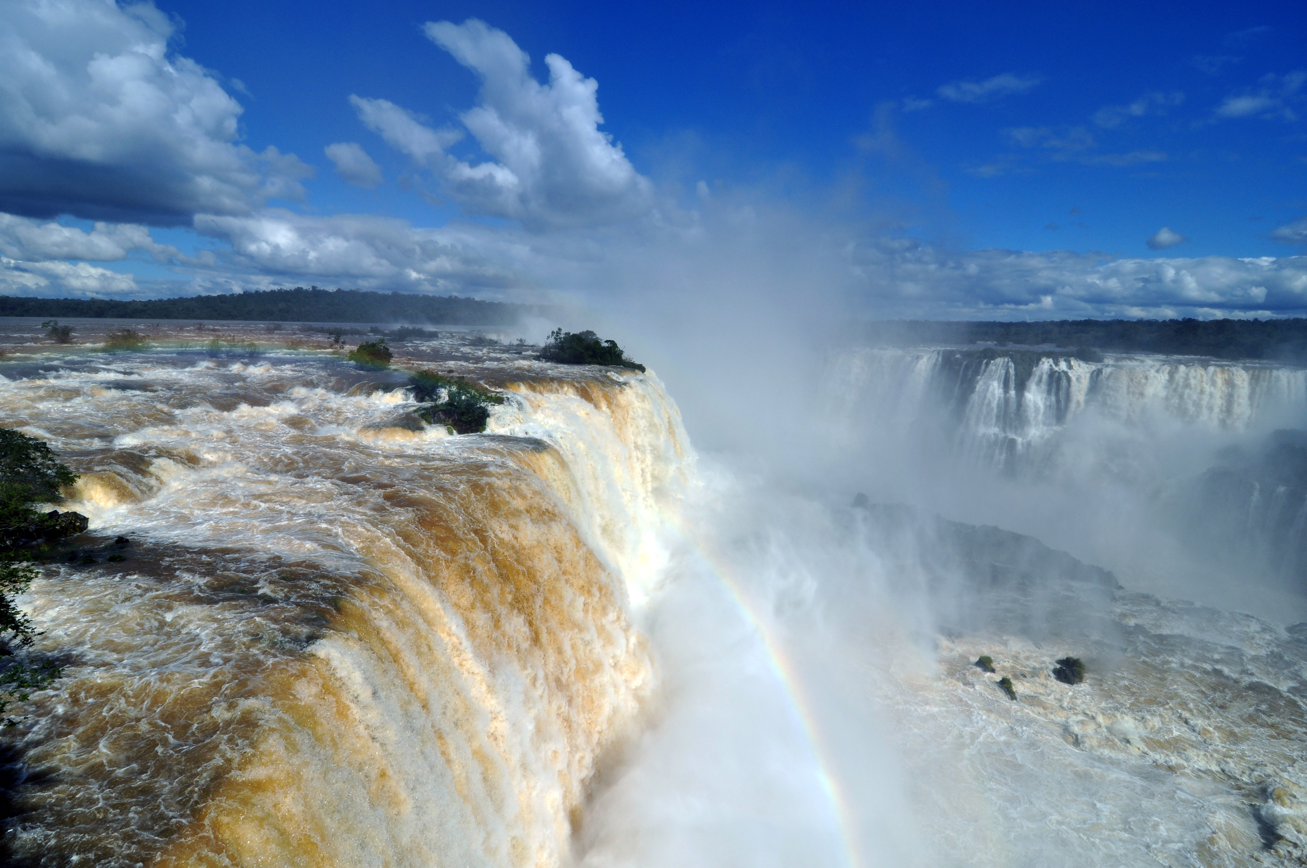 Iguazu Falls Brazil 2010 brown sediment rainbow